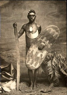 Ye-i-nie, King of Cairns in 1905. Photo by A. Atkinson. (This image was created in Australia in 1905 and is now in the public domain because its term of copyright has expired. According to the Australian Copyright Council, [ I)